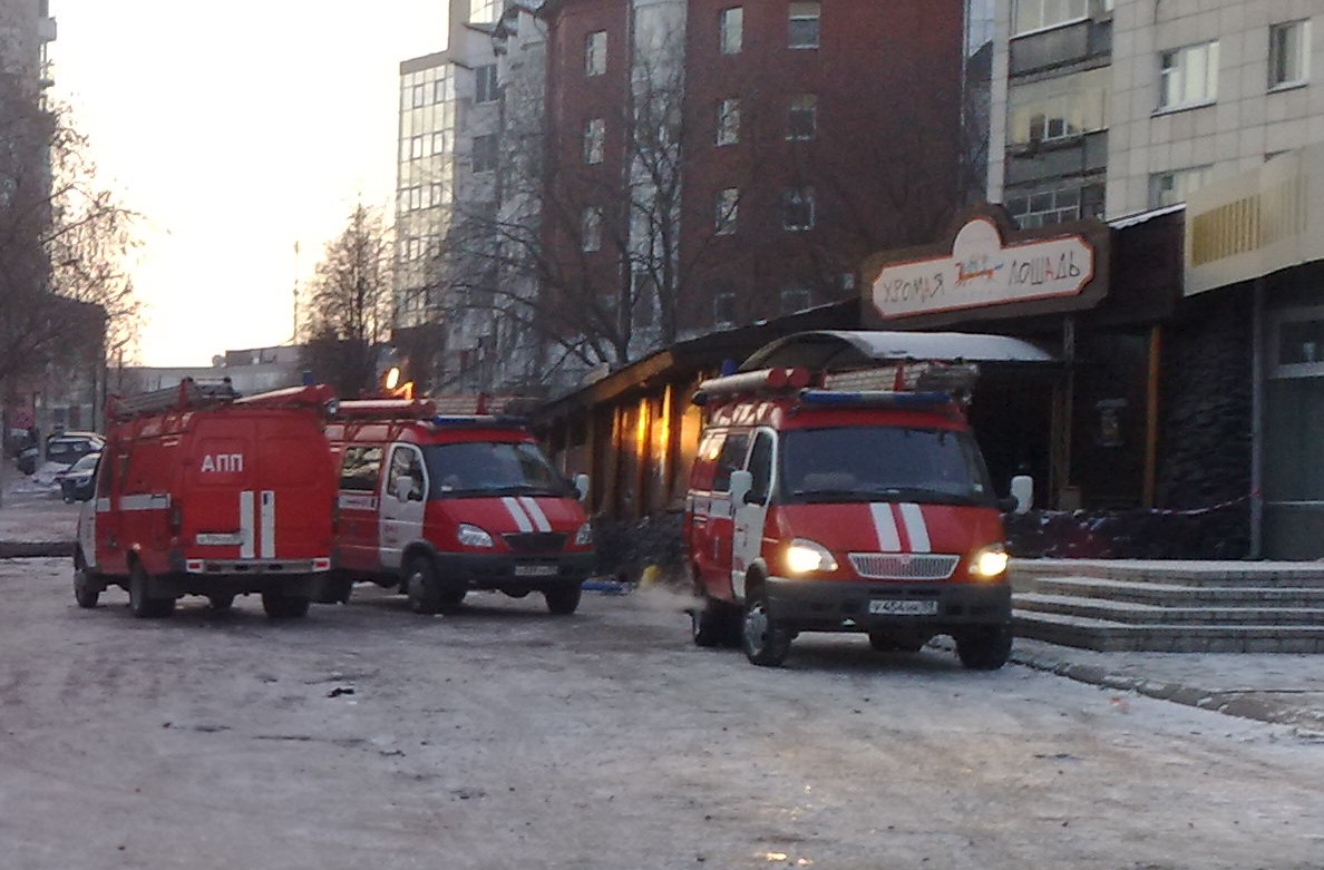 Entrance of the Lame Horse club